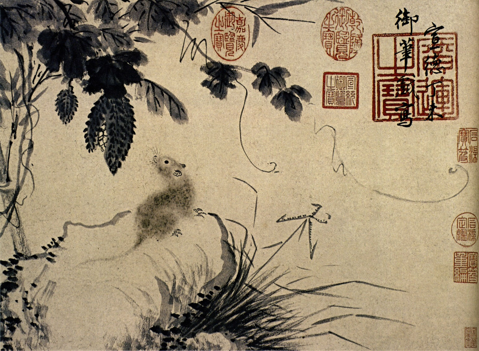 "Mouse and Stone", scroll, light color on paper, 28.2 x 38.5 cm. Located at the Palace Museum.